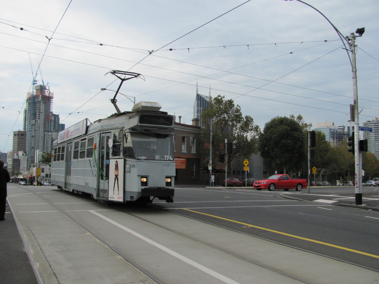 Z-class tram no. 174 on Victoria Street (at Howard Street), North Melbourne.